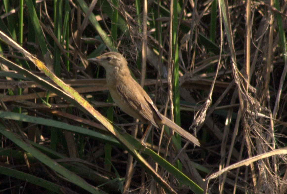 Paddyfield Warbler Acrocephalus agricola. Showing side plumage. At Dombivli, Maharashtra.